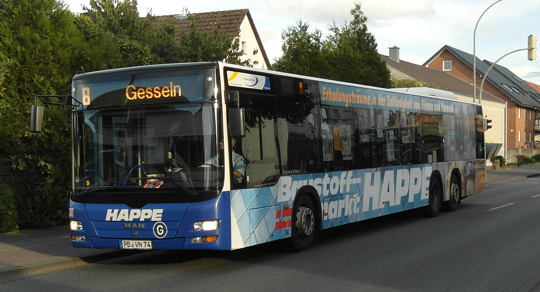 15-meter-bus from manufacturer MAN with three axles. The Bus Line 8 of the „Padersprinter“. Photographed at the bus stop: „Gasthof zur Heide“.